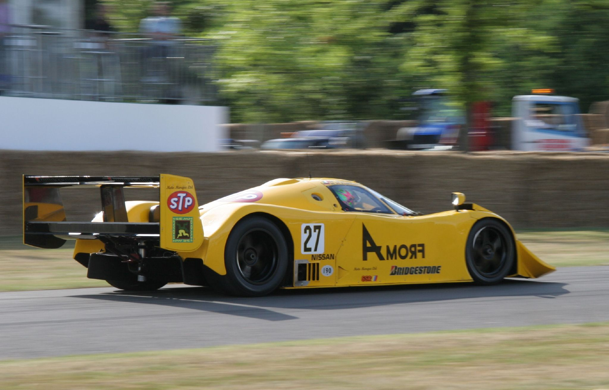 1990 Nissan R90CK at the 2006 Goodwood Festival of Speed